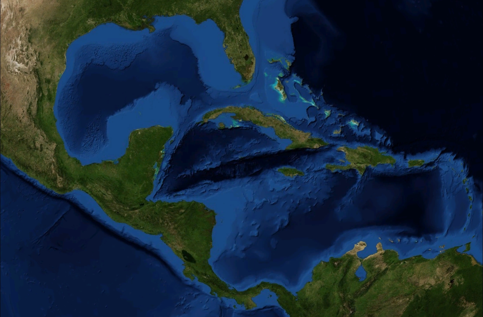 Satellite pictures, from NASA World Wind Globe, version 1.4